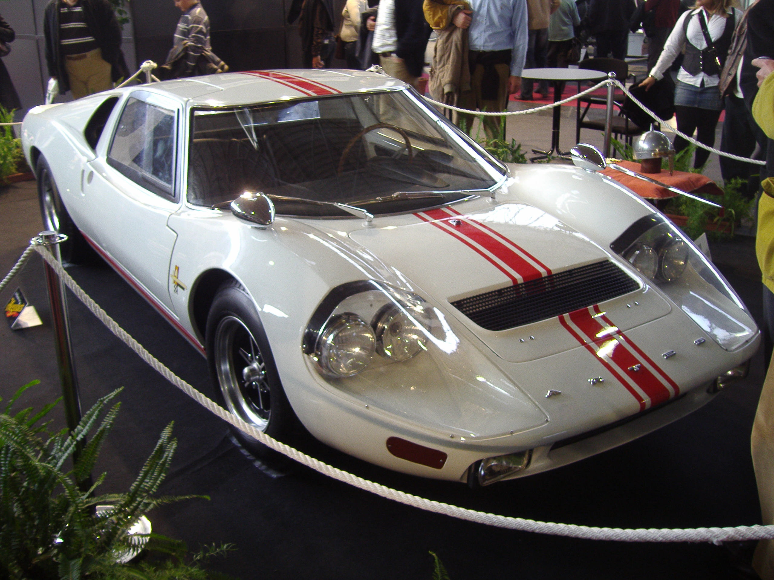 1967 Artés Campeador at Auto Retro 2007 (Barcelona)